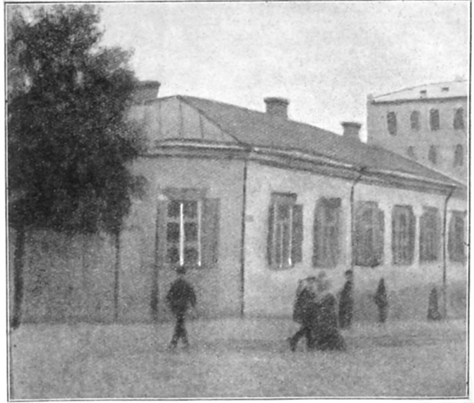 Building of Kievlyanin newspaper. Kuznechnaya street crossing Karavaevskaya street